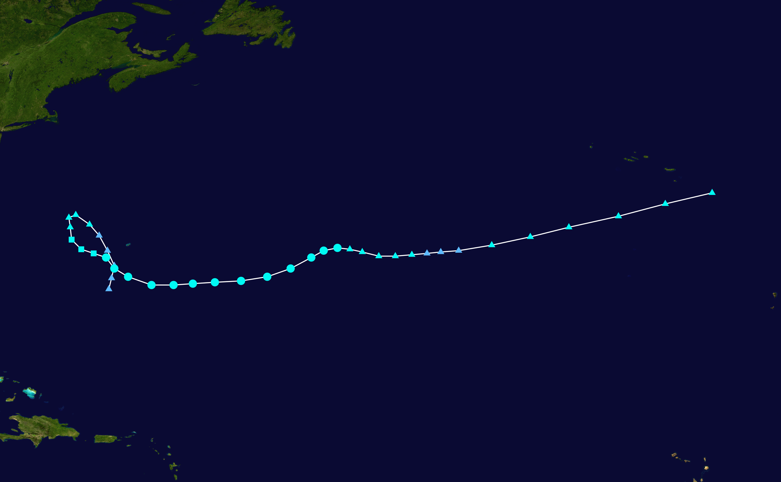 Track map of Tropical Storm Ana of the 2003 Atlantic hurricane season. The points show the location of the storm at 6-hour intervals. The colour represents the storm's maximum sustained wind speeds as classified in the Saffir–Simpson scale (see below), and the shape of the data points represent the nature of the storm, according to the legend below. Saffir–Simpson scale Tropical depression≤38 mph≤62 km/h Category 3111–129 mph178–208 km/h Tropical storm39–73 mph63–118 km/h Category 4130–156 mph209–251 km/h Category 174–95 mph119–153 km/h Category 5≥157 mph≥252 km/h Category 296–110 mph154–177 km/h Unknown Storm type Tropical cyclone Subtropical cyclone Extratropical cyclone / Remnant low / Tropical disturbance / Monsoon depression